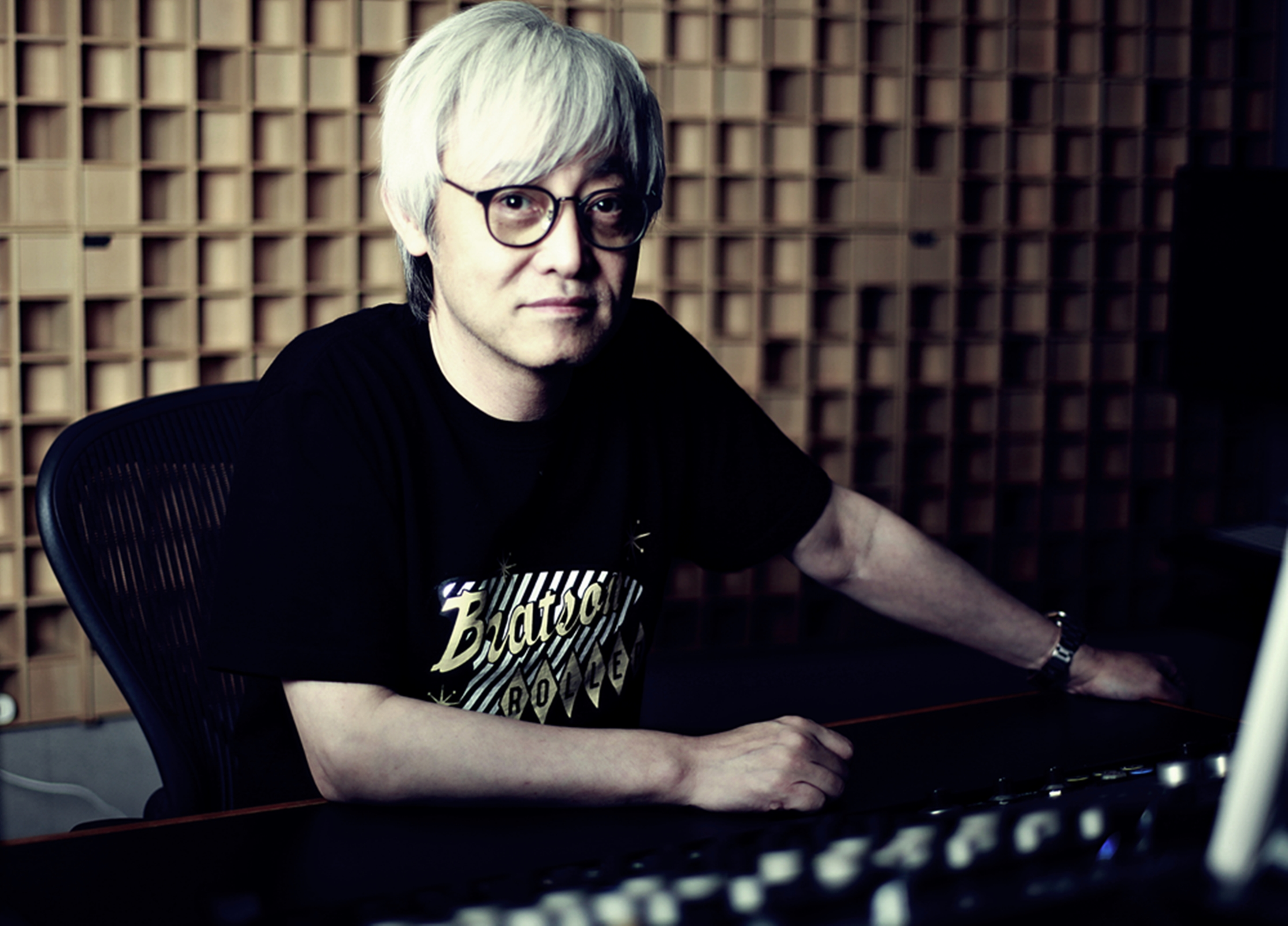 Francis Jihoon Seong at JFS Mastering M4